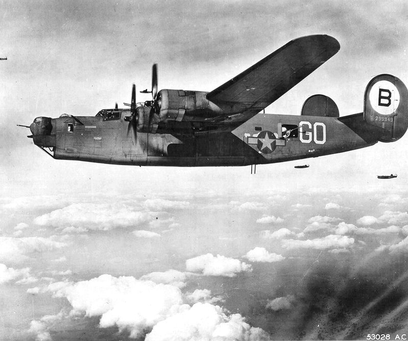 "Naughty Nan" B-24J-55-CO s/n 42-99949 328th Bombardment Squadron, 93rd Bombardment Group, 8th AF Lost on Sept. 21,1944 over Belgium in a mid-air collision with B-24H (s/n 42-94969) from the 93rd's 330th Bomb Squadron. Both planes crashed near Ingelmunster,Belgium. Photo taken 14 August 1944